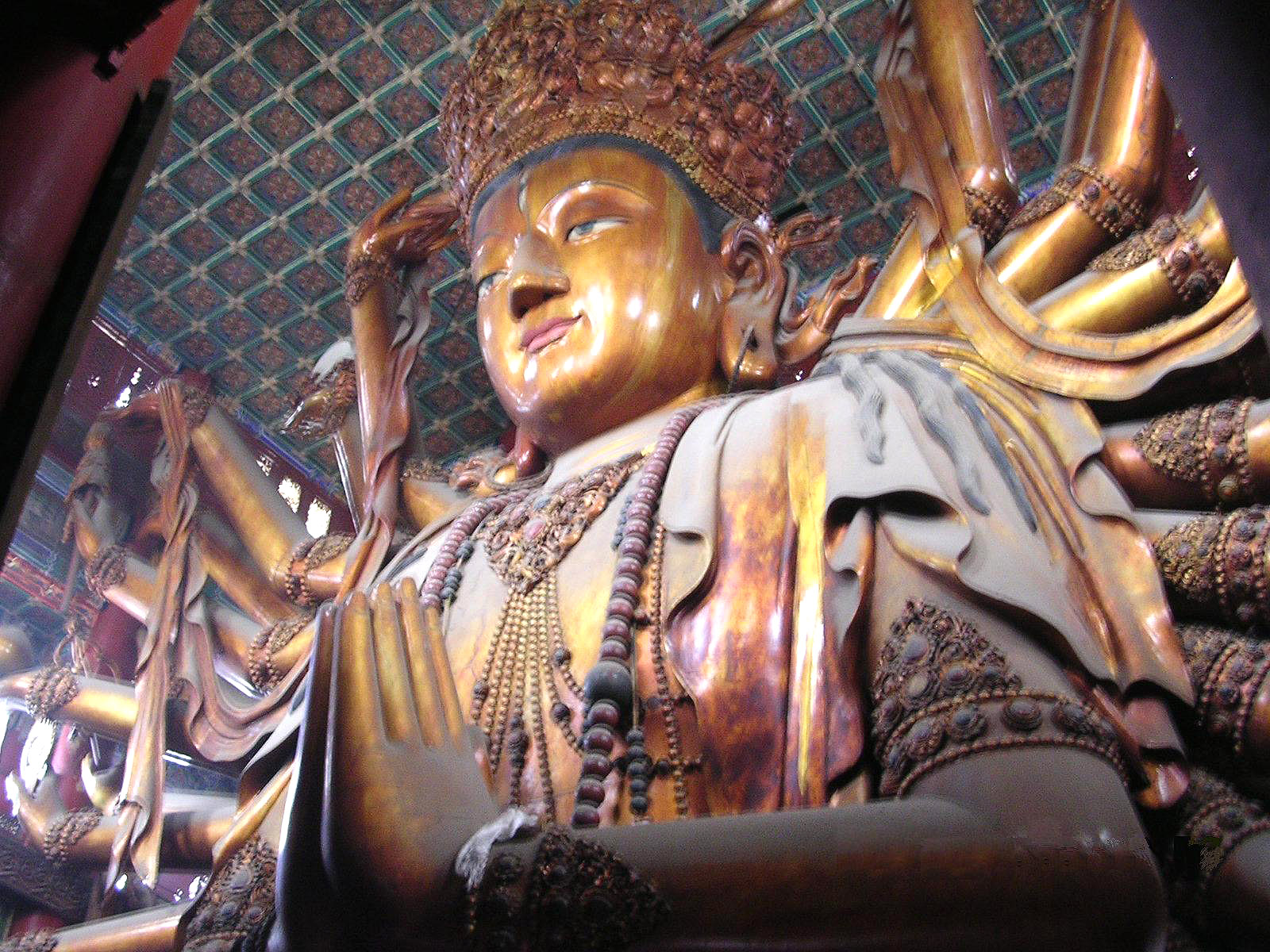 Big wooden Budhisattva statue in Puning Temple of Chengde, China, built in the 18th century.